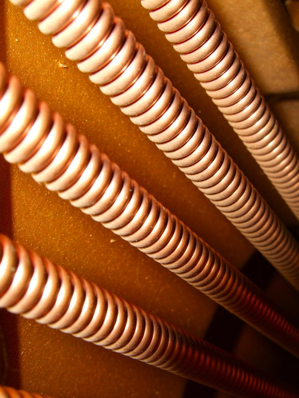 Piano string detail, mirrored, rotated